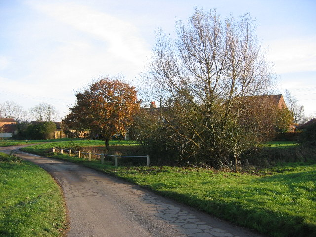 Gembling, East Riding of Yorkshire, England.Looking east to the village pond. Gembling is in the SE corner of the grid square with Great Kelk on the north edge of this farming area.